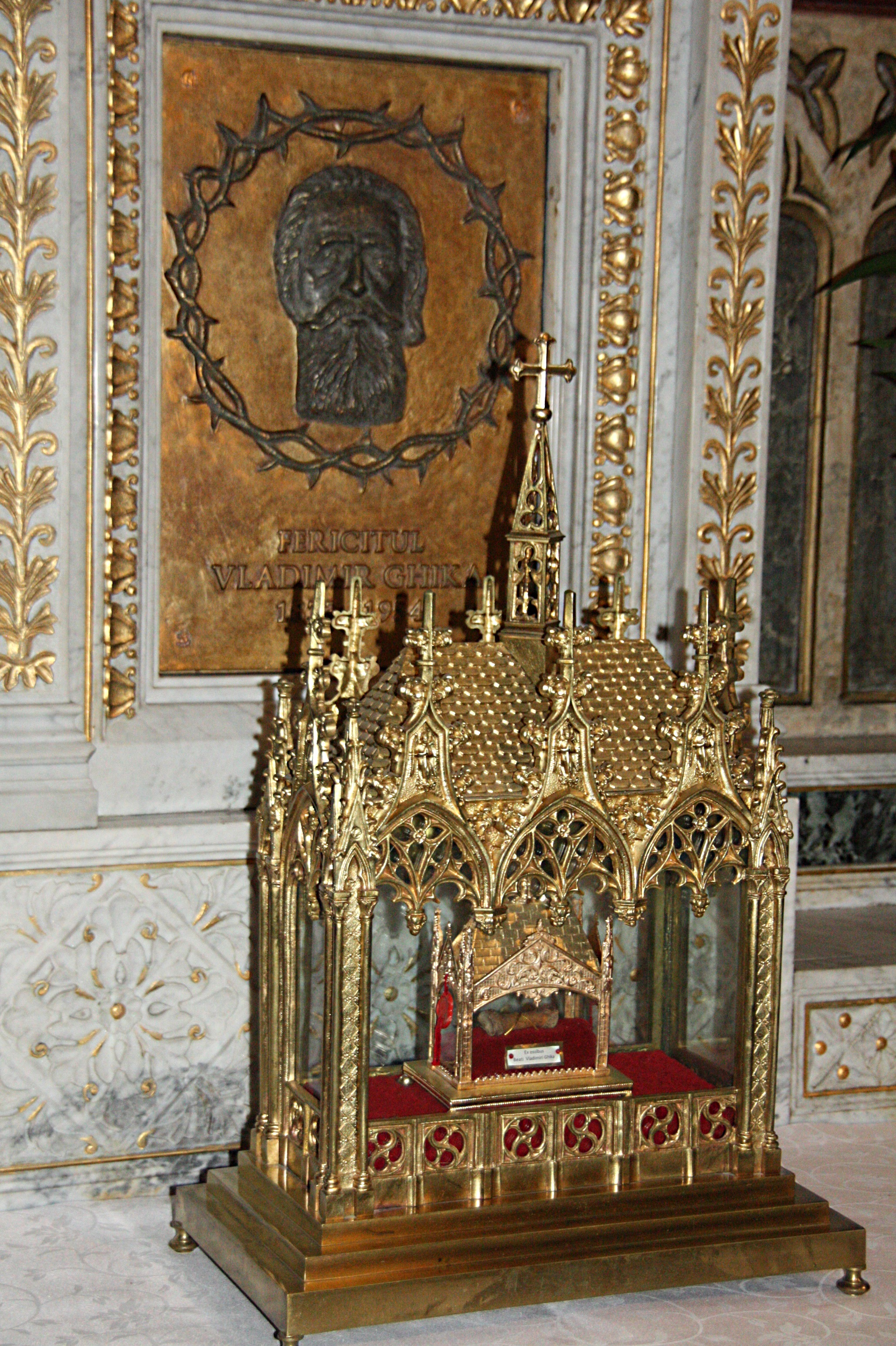 relic of blessed priest Vladimir Ghika in the roman catholic cathedral of Bucharest